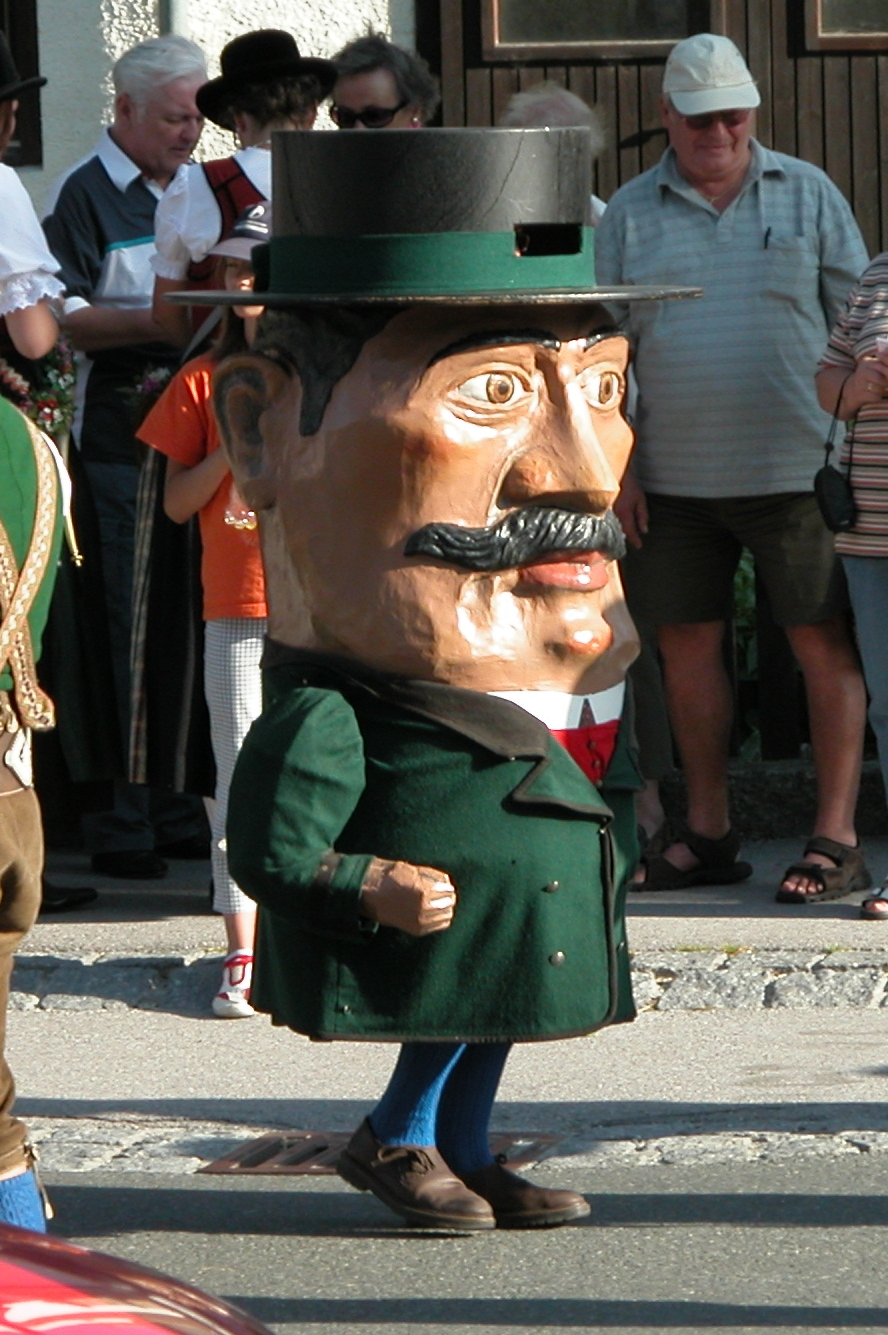 Giant Samson from Mariapfarr